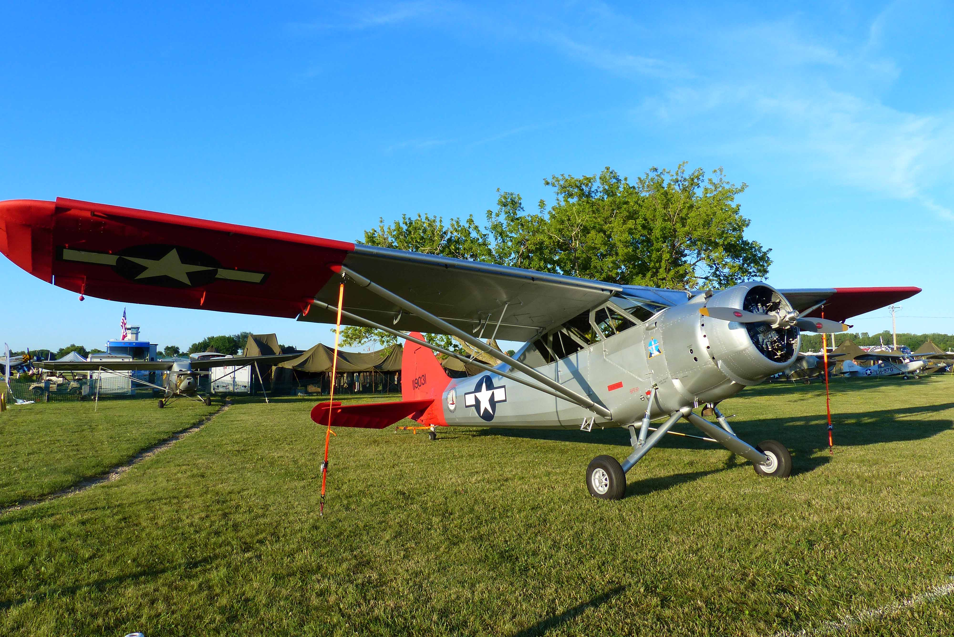 Stinson L-1 "Vigilant". This American aircraft, NL1377B, is the Reserve Grand Champoin - World War II at Oshkosh Airventure 2016, Oshkosh, Wisconsin, U.S.A. The aircraft is owned by James Harker of Blaine, Minnesota